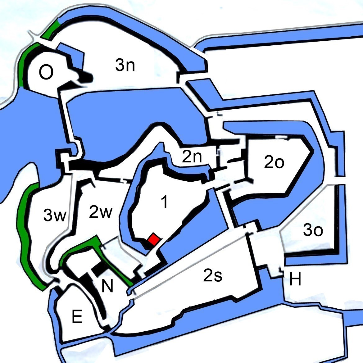 Layout of former Nakamurra castle